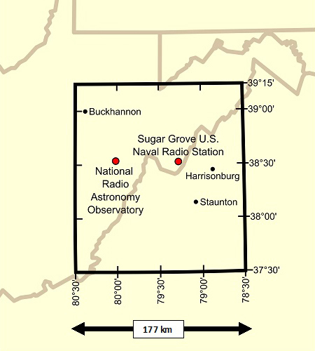 The location of the United States National Radio Quiet Zone and major locations within it.